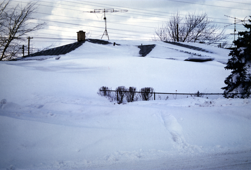 Photo of a house almost completely buried in snow in the aftermath of the "Blizzard of '77" in Western New York. Photo taken by Jeff Wurstner. Tonawanda, New York on Parker Boulevard between Brompton Road and Elicott Creek Road.